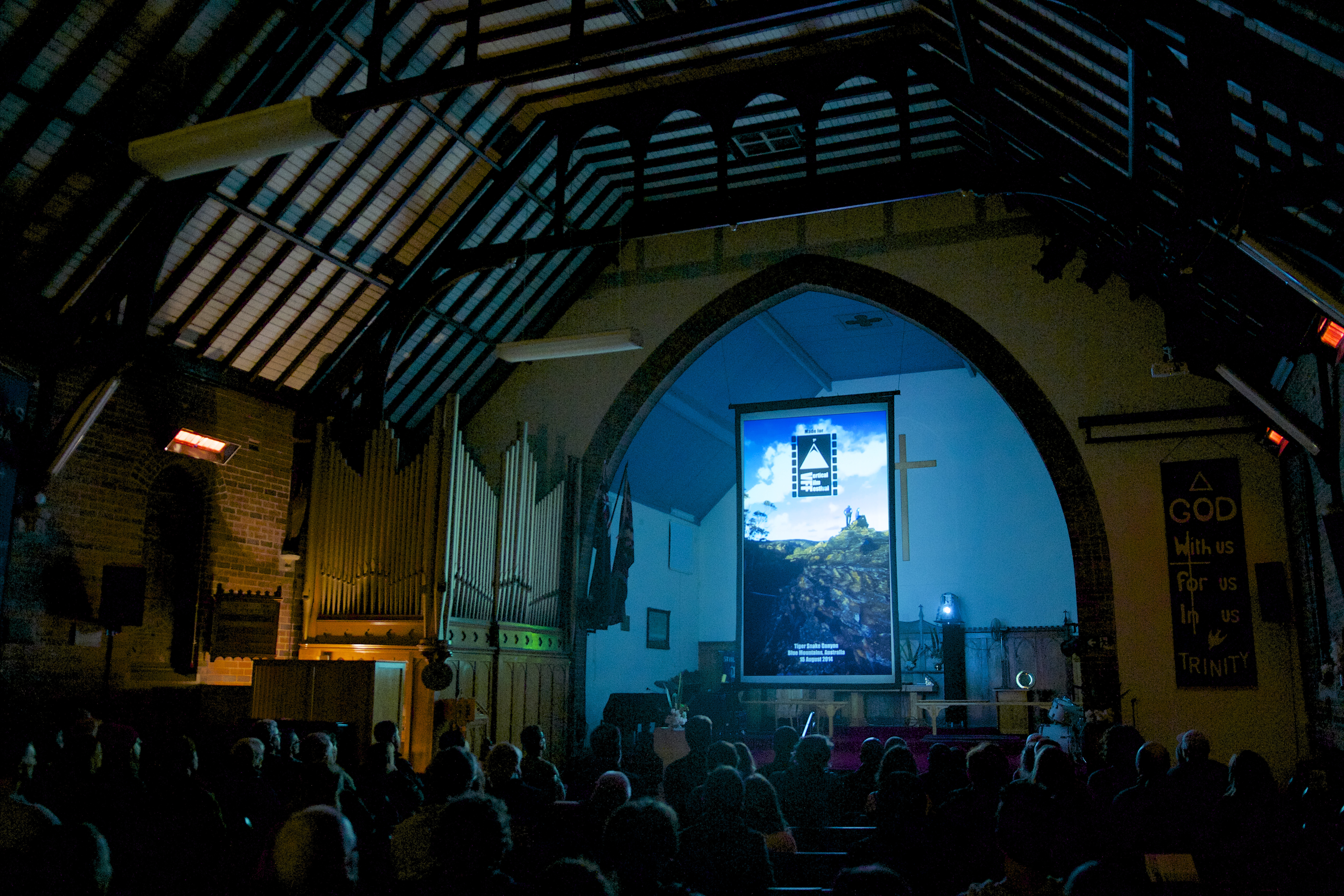 The first edition of the Vertical Film Festival, projected in tall-screen 9:16 aspect ratio at St Hilda's Church, Katoomba in Australia's Blue Mountains on 17 October 2014. Photo by Adam Sébire, director of the 1st VFF [1].